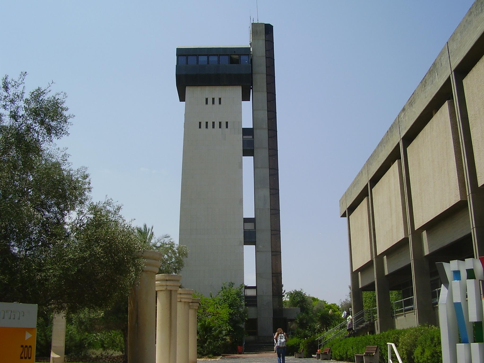 An observation tower at Bar- Ilan University